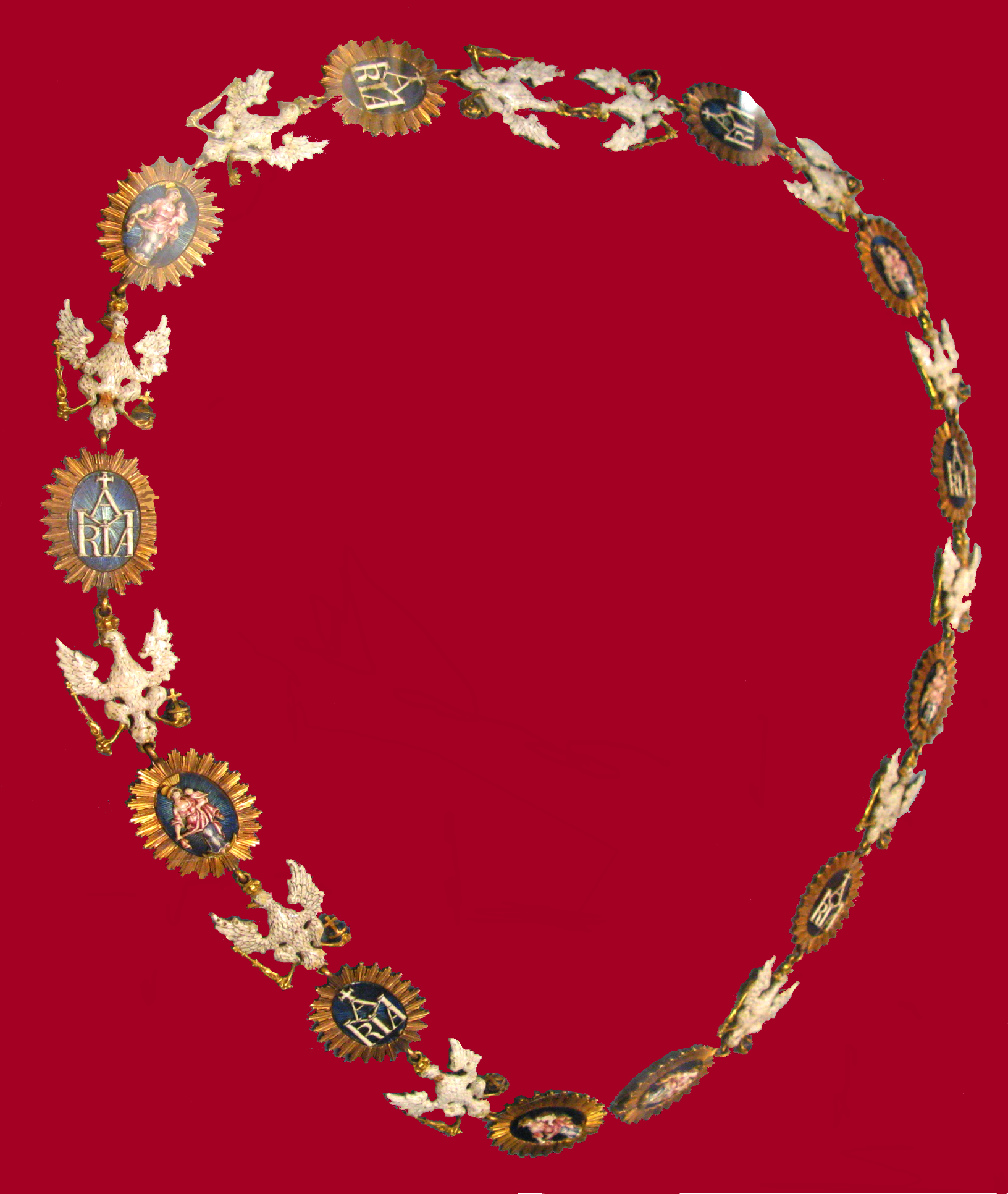 Collar of the Order of the White Eagle of King Stanisław August Poniatowski. Displayed in the Royal Chapel.